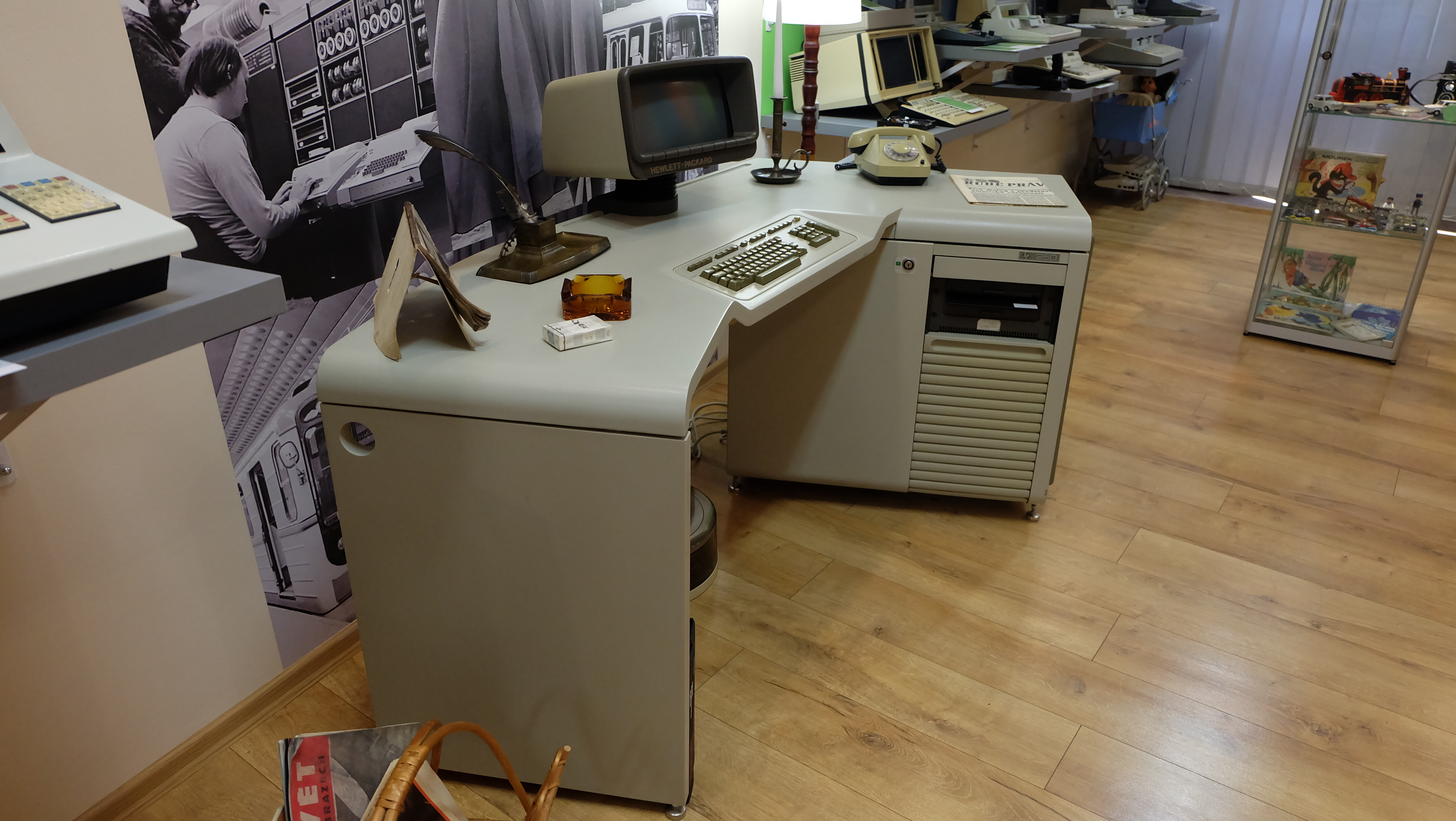 HP-250. Year 1978. Functional. Located in Zatec, Czech Republic.